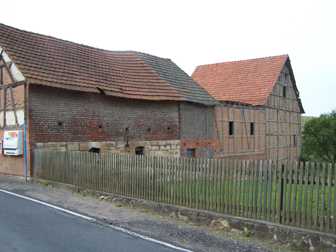 A former farmhouse in Wolfsburg, it's a Vierseithof.